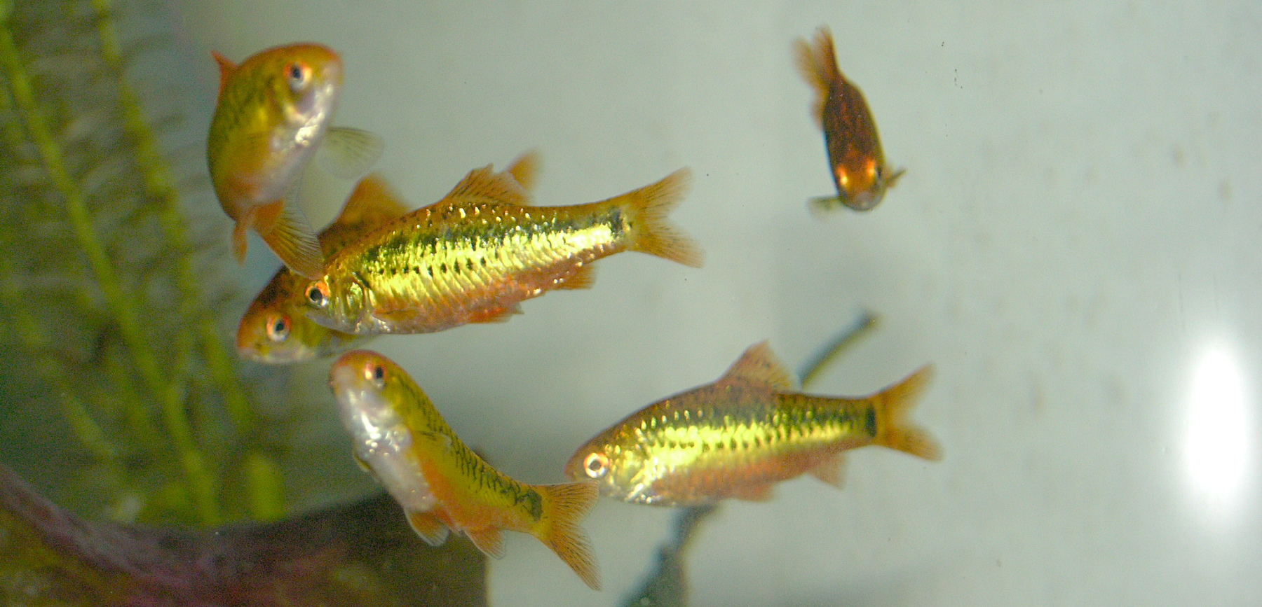 A photograph of the Gold Barb (Puntius semifasciolatus).